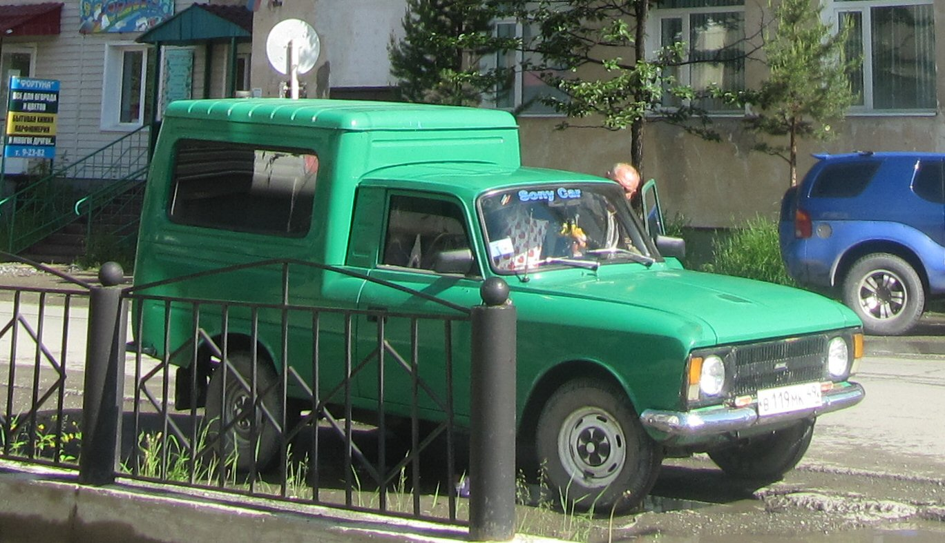 (Most probably) cargo-passenger IZh-27156 variant.